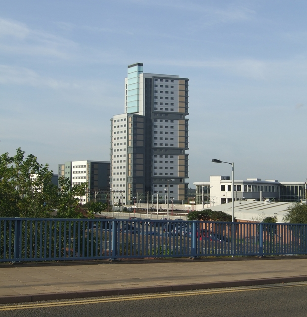 Victoria Hall - University of Wolverhampton The first students move into the new hall of residence this week. The headline in the Wolverhampton Chronicle was 'Students move in to 'blast fear' flats'. Court action is being taken by HSE against Wolverhampton City Council as there are fears for safety with regard to the granting of planning permission within the blast zone of propane gas cylinders stored at Carvers builders merchants.